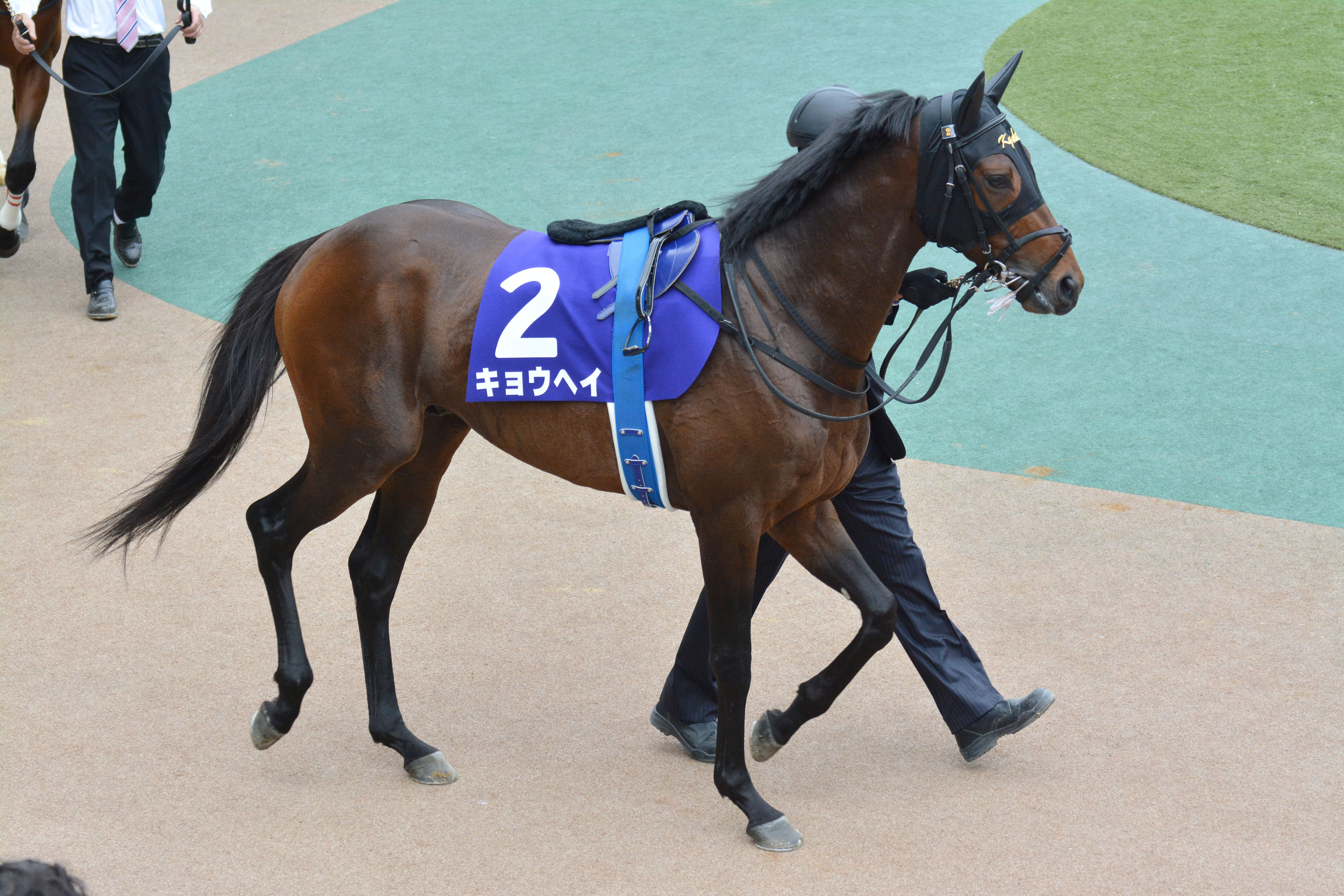 Japanese racehorse Kyohei at Tokyo racecourse(2017-05-07 The 22th NHK Mile Cup).